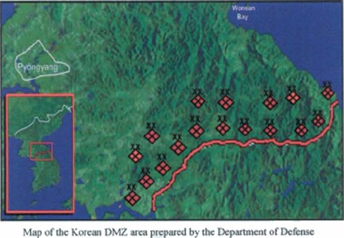 DoD map of the Korean DMZ, showing the disposition of KPA units.